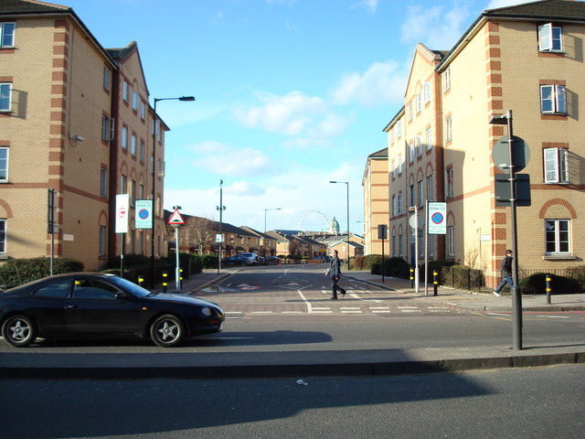 Dante Road, London SE11